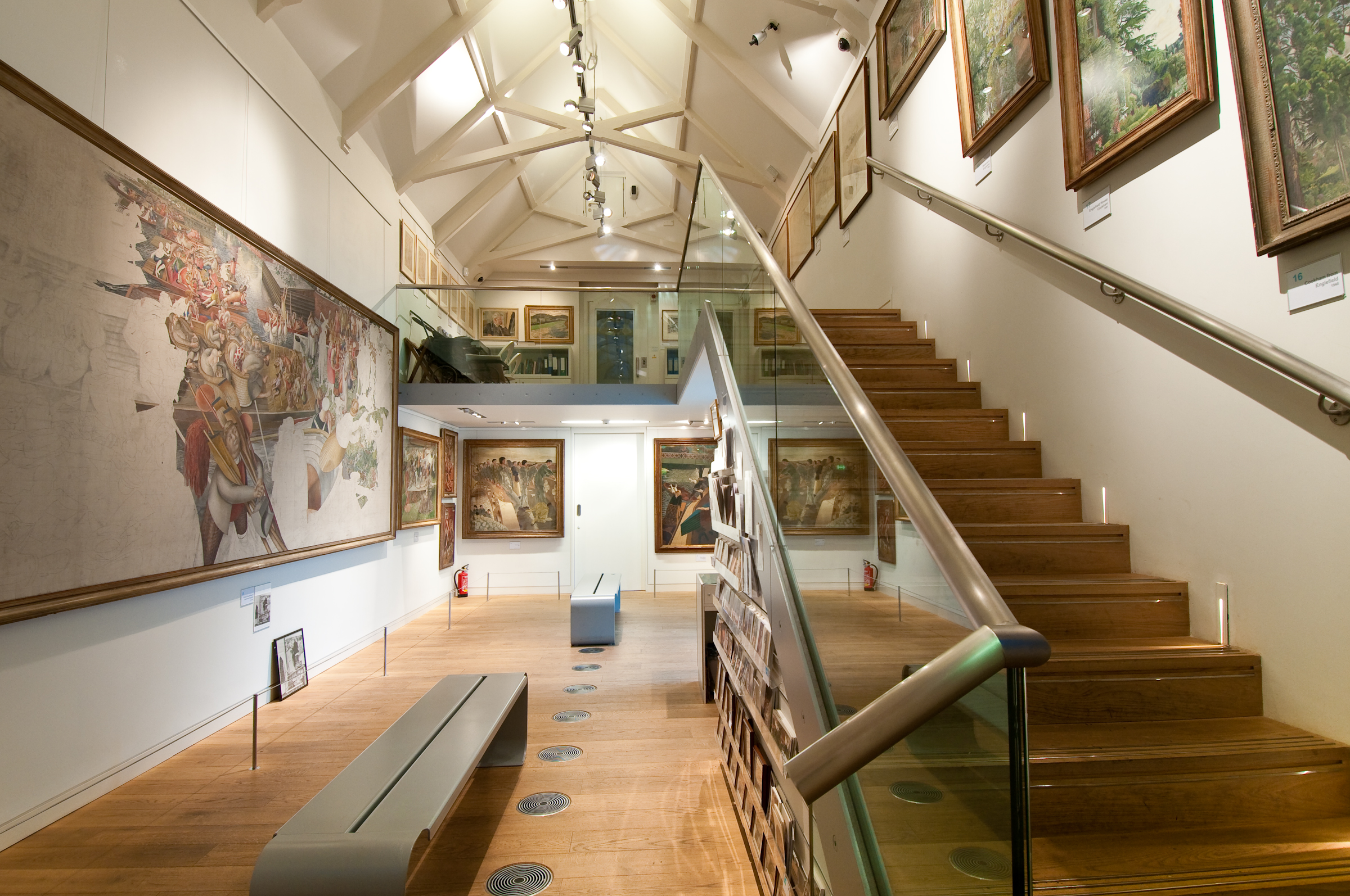 Inside the current Gallery